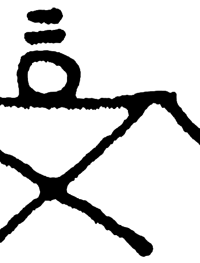 Partial image of one of the pictographs devised by Silas John Edwards used to write Western Apache; cropped and cleaned up from book cover.